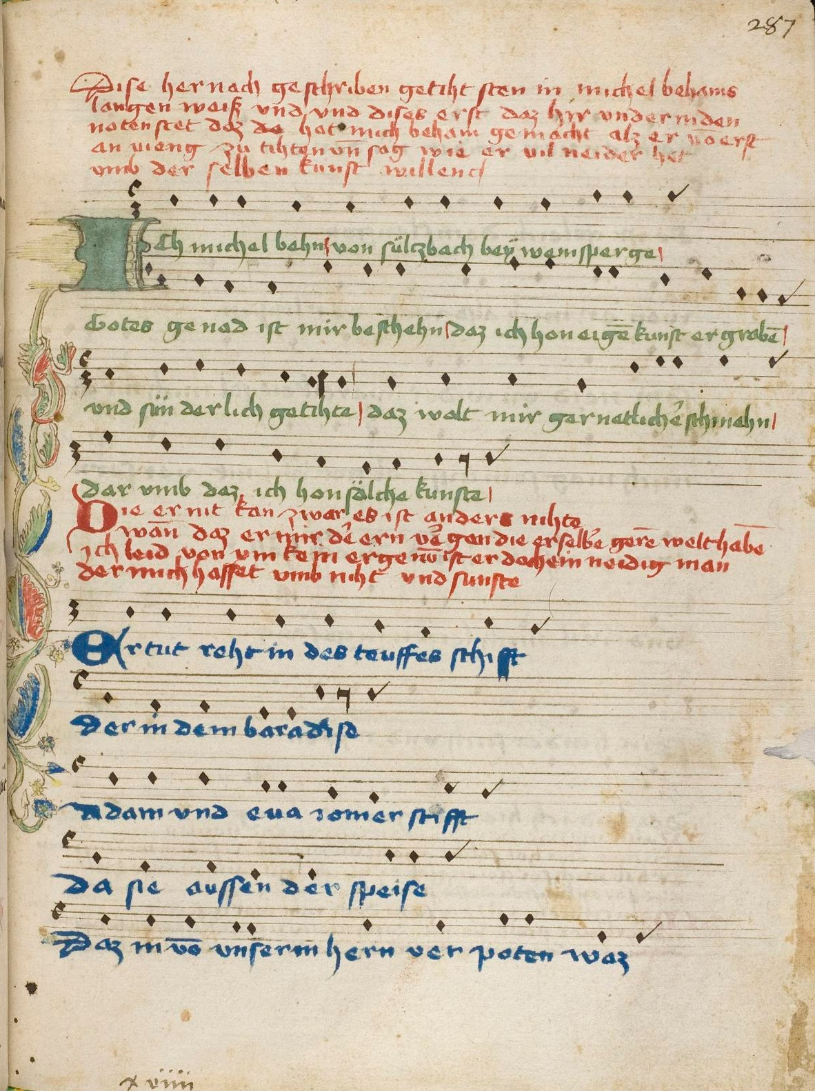 Begin of the Lange Weise (translated: long melody) which is used for Michel Beheim's songs 425–452, taken from folio 287r of cpg 312 of University Library Heidelberg. This melody is, for example, to be used for the song 449 von Sant Patericÿ fegfeur.